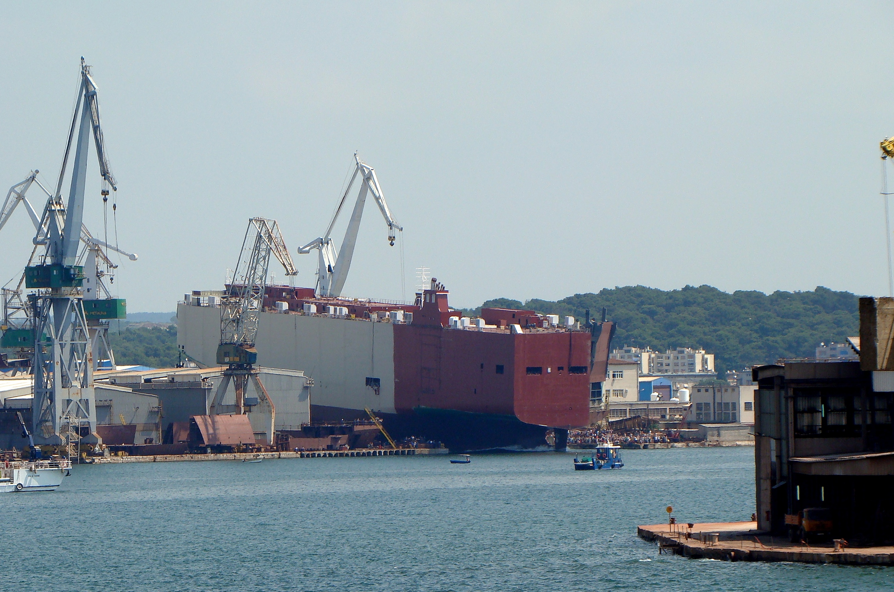 Ship launch in Uljanik shipyard, Pula